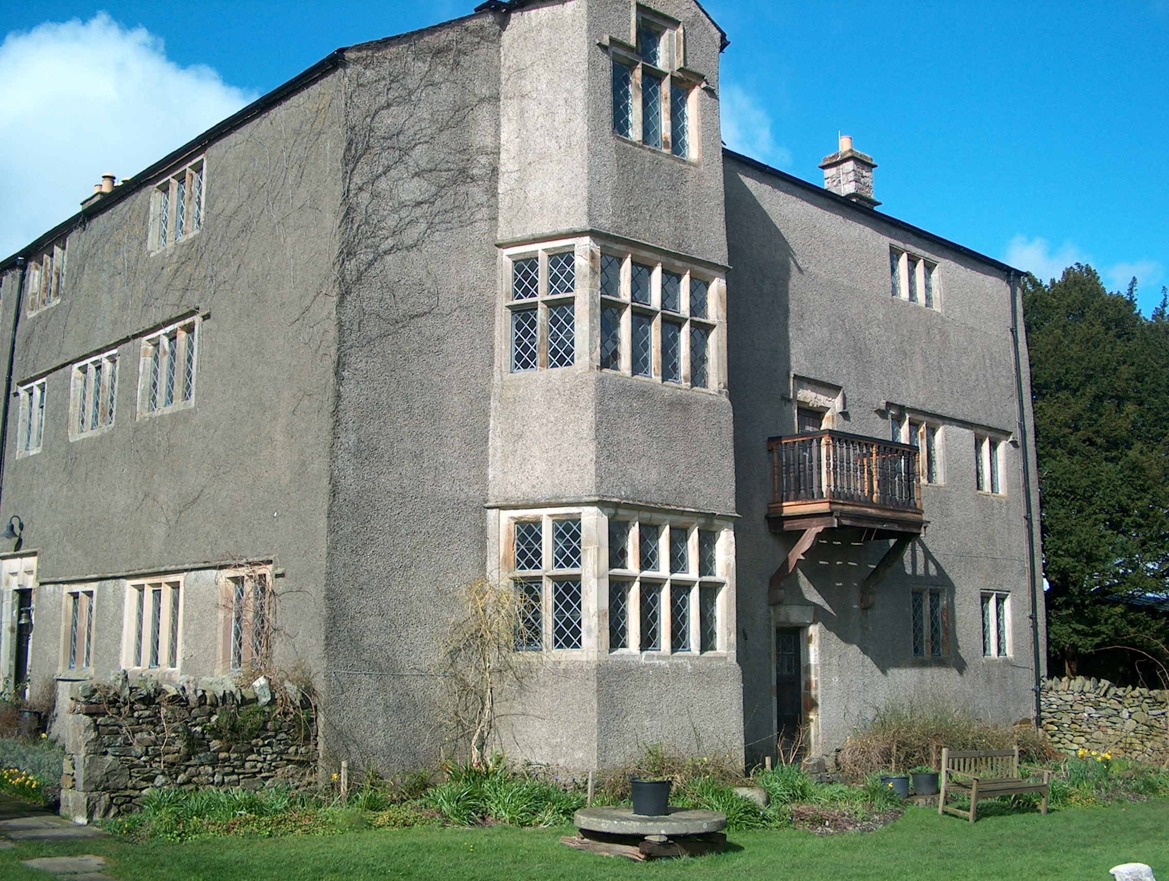 Swarthmoor hall 03 07